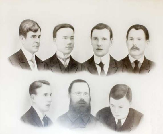 Labor activists executed during the 1918 Finnish Civil War in Rovaniemi. Up left: Kaarlo Kurki, Martti Nieminen, Aabel Vauhkonen, Antti Räty. Down left: Leo Pekkala, Heikki Marttila, Niilo Huovinen.